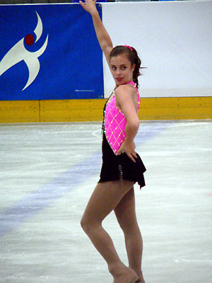 Ashley Wagner during her short program at the 2006 Junior Grand Prix event in The Hague, Netherlands